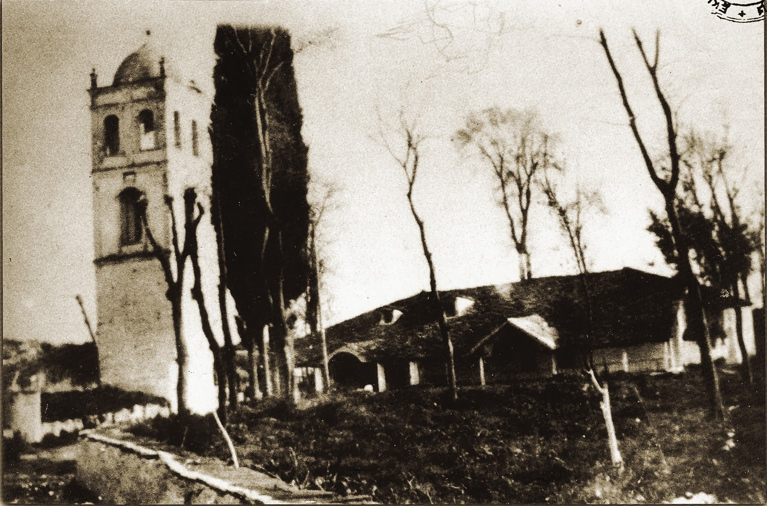 Saint Nicholas Church in Pravi (Eleftheroupoli).